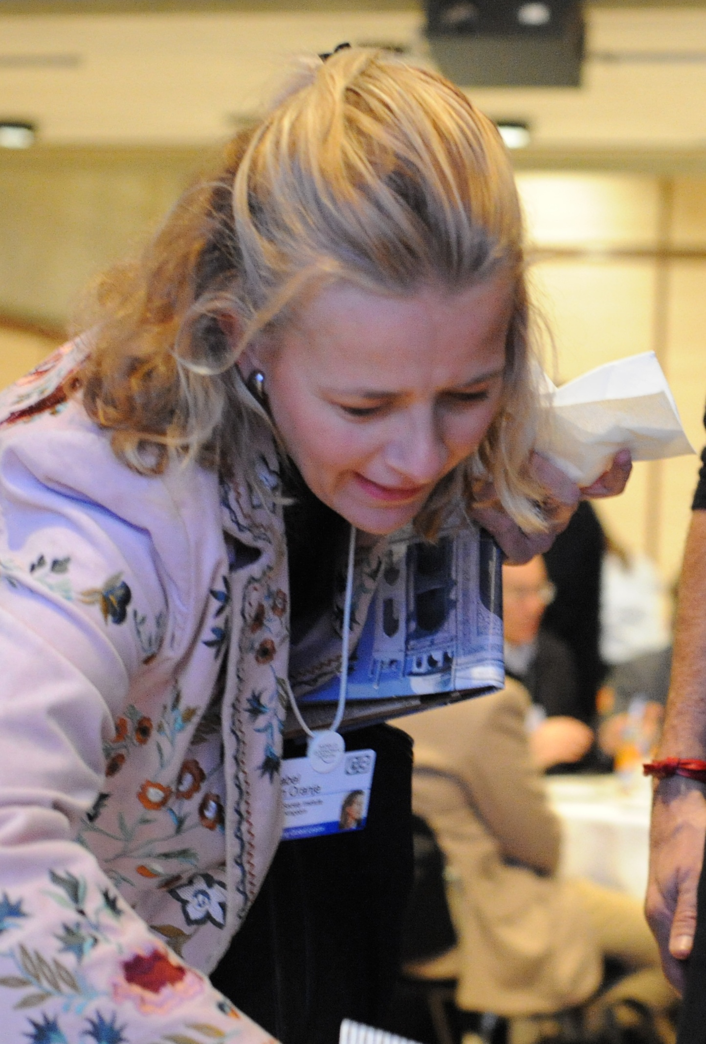 Princess Mabel of Orange-Nassau